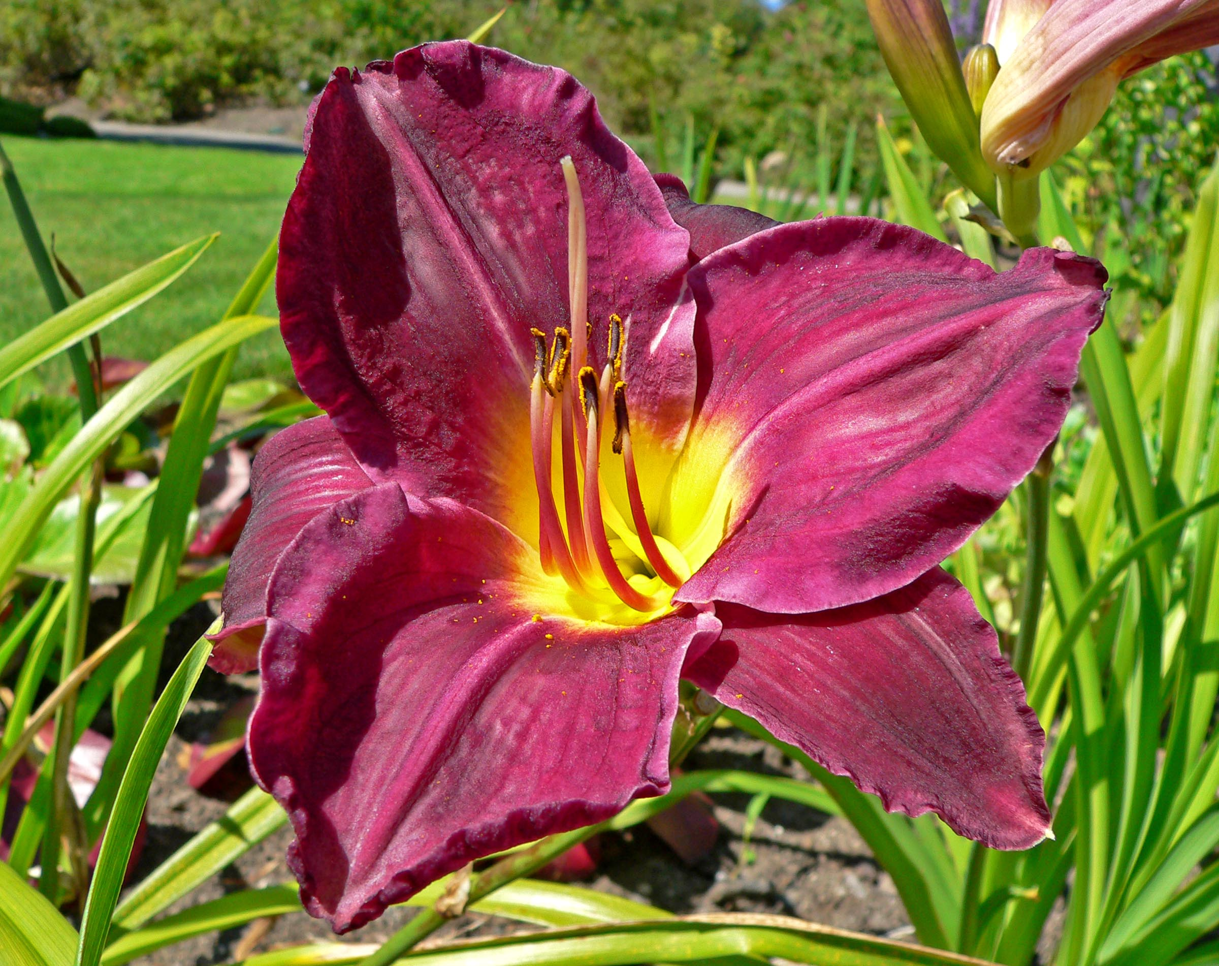 Photo of Hemerocallis 'Strutter's Ball' at the VanDusen Botanical Garden in Vancouver